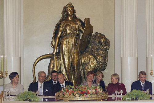 HELSINKI. Finnish President Tarja Halonen and her husband, Dr Pentti Arajarvi, held a banquet in honour of President Putin and his wife Lyudmila.